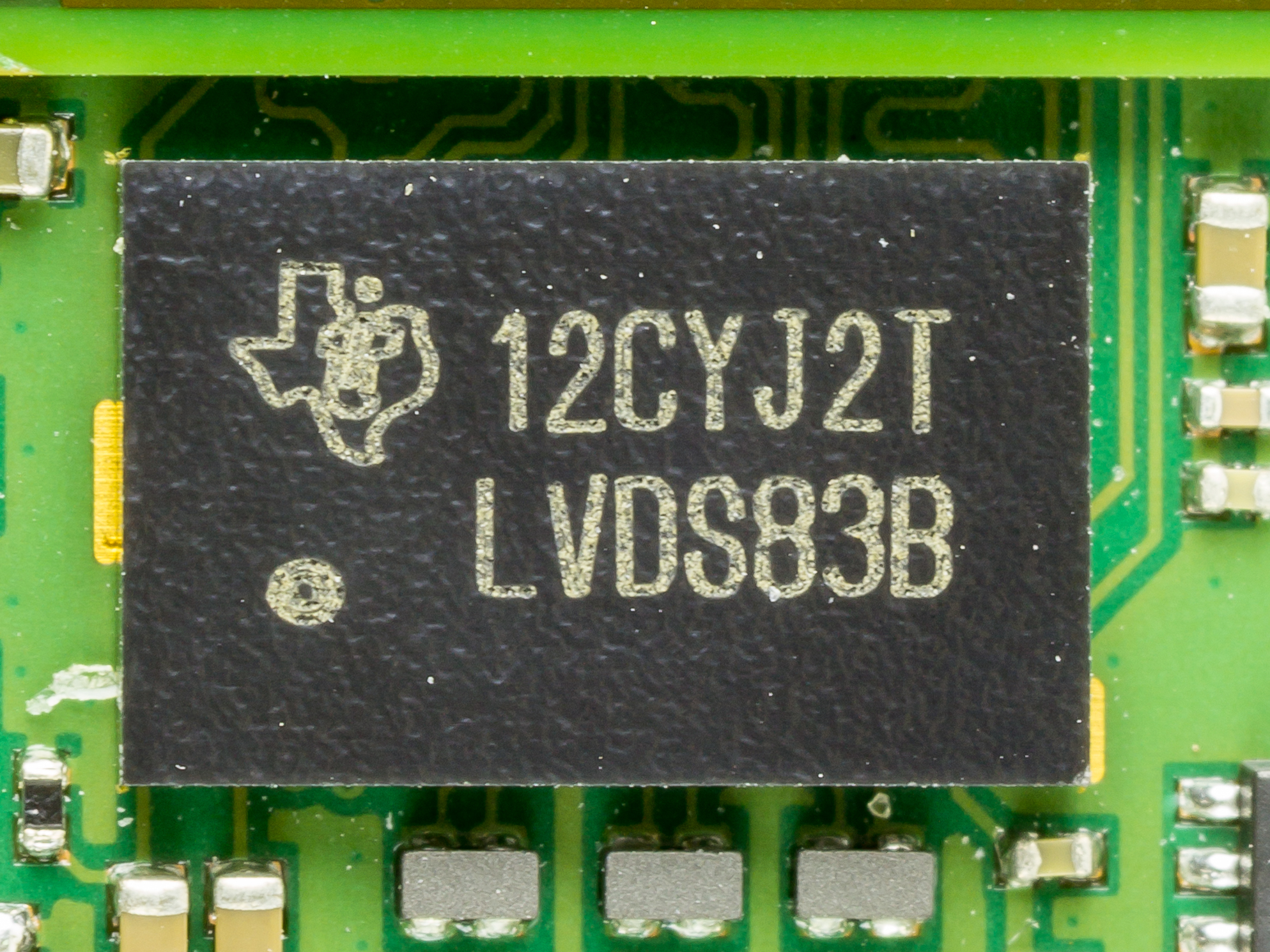 Motorola Xoom - Texas Instruments 5LVDS83B (SN75LVDS83B FlatLink Transmitter) on main board. Package: BGA